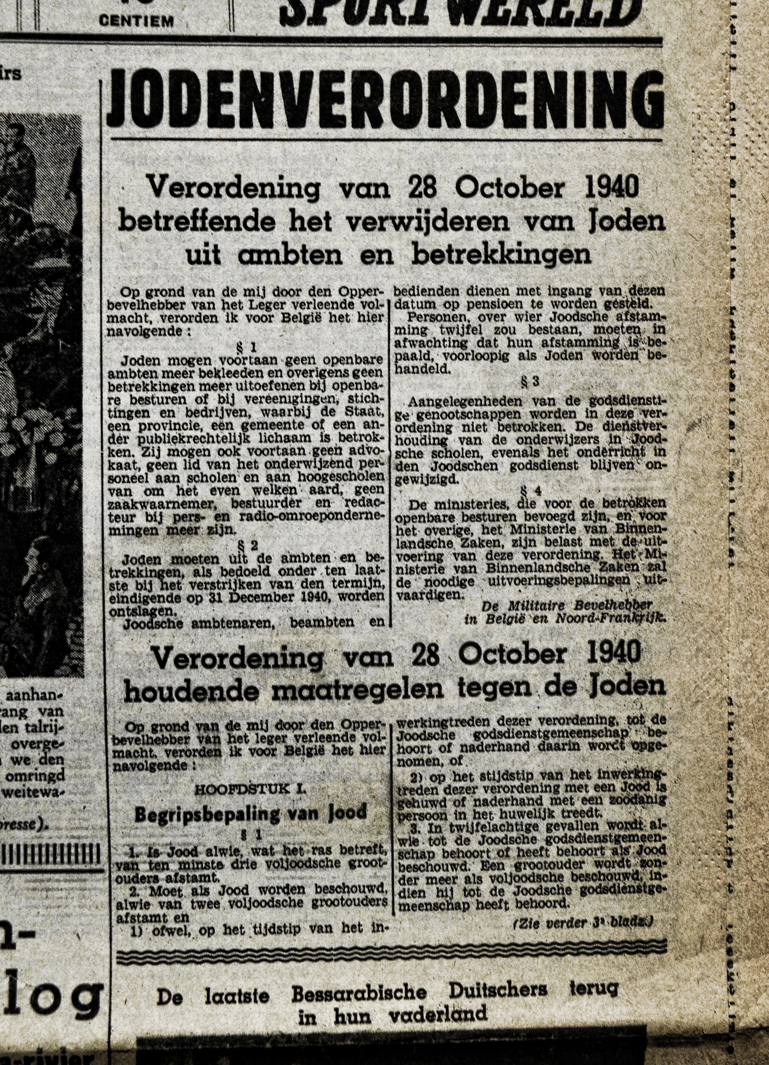 Frontpage of Flemish Newspaper "Het Algemeen Nieuws" (6 November 1940) With announcement of Persecution of Jews in Belgium: "Claim of October 28 1940 concerning the expulsion of Jews from offices and relations"